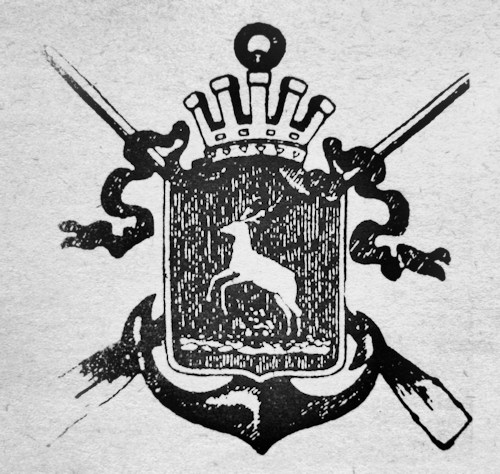 Button of Rowing Association from Łomża